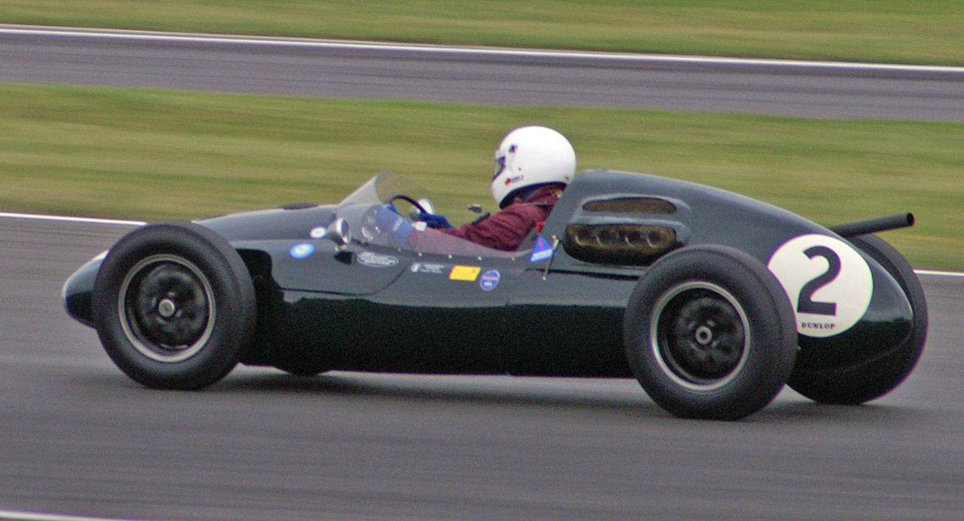 Silverstone Classic 2009